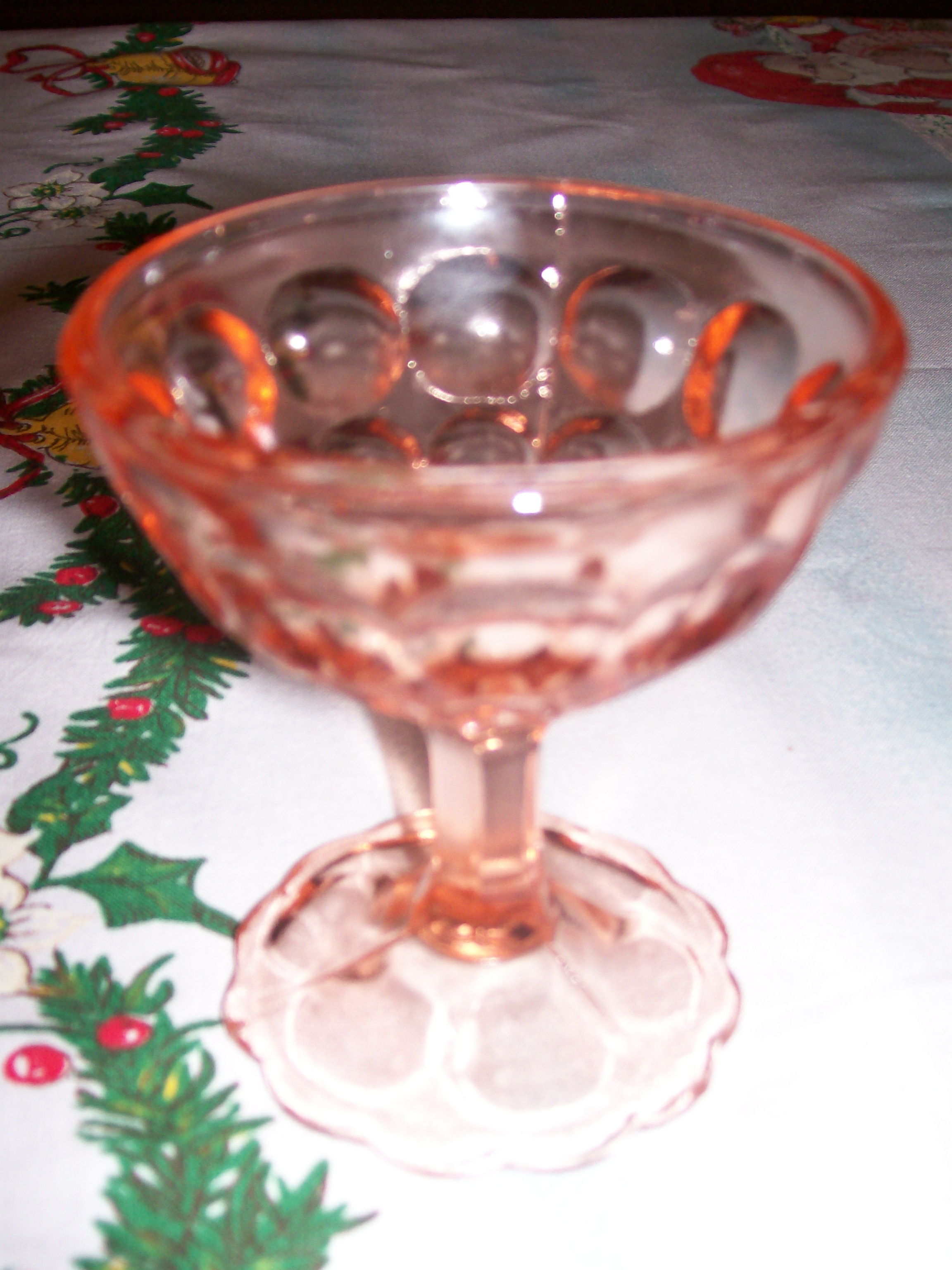 ice cream bowl author:Ewkaa